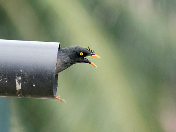 Jungle Myna Acridotheres fuscus in Kolkata, West Bengal, India.